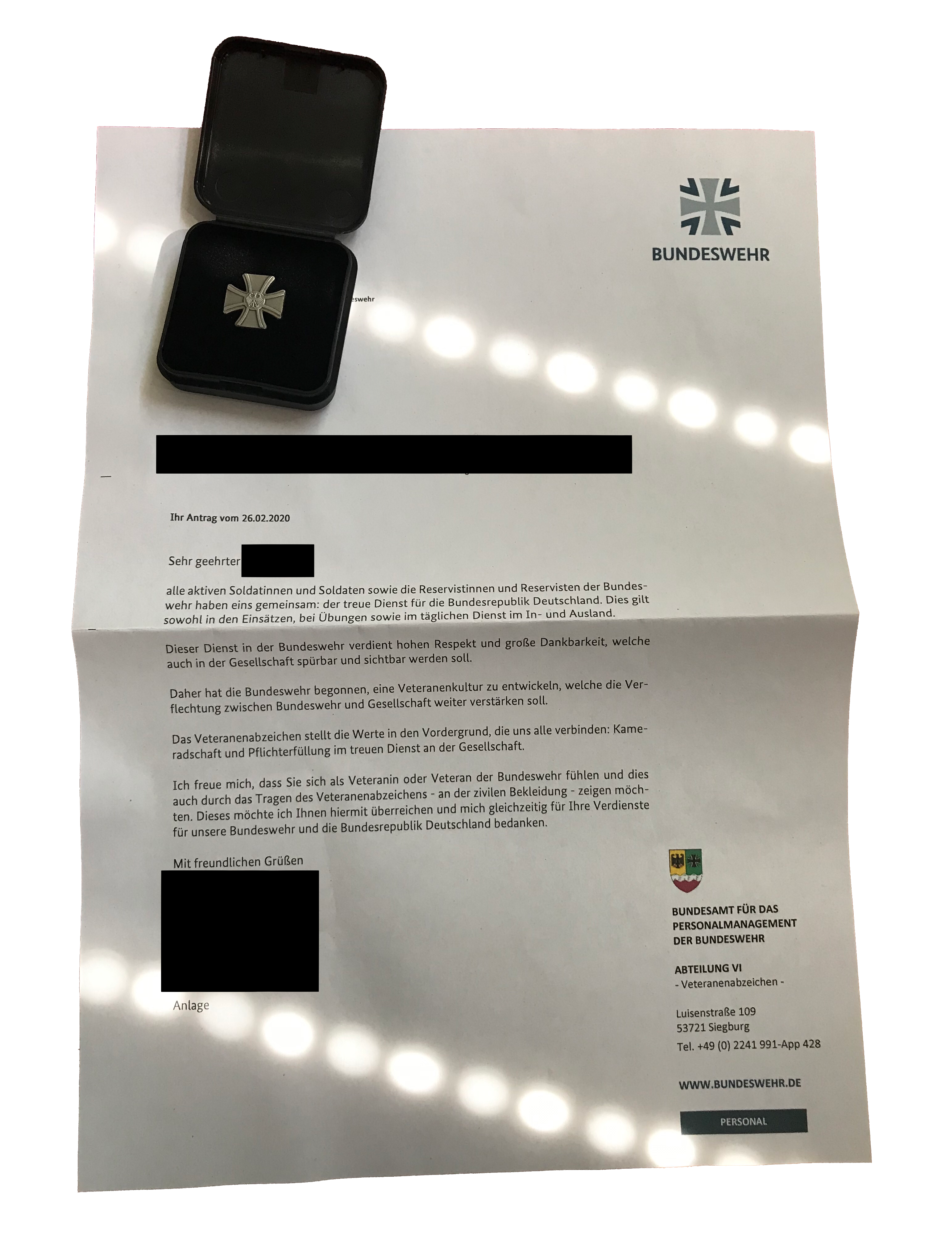 The Bundeswher Veteran Cross with a letter from a Bundeswehr employee